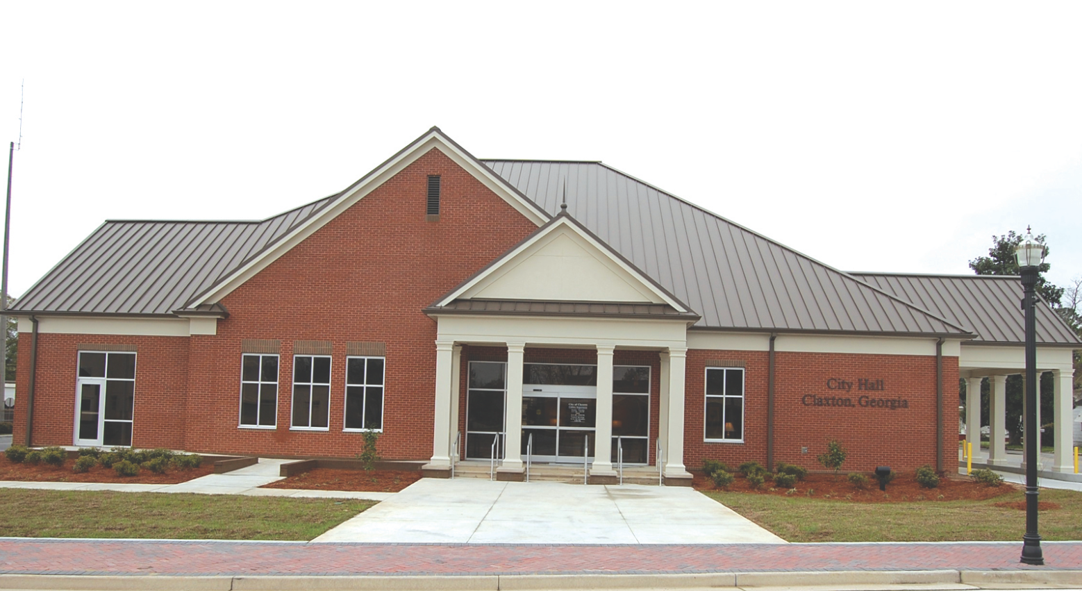 The new city hall in Claxton, Georgia, seat of the city's local government.